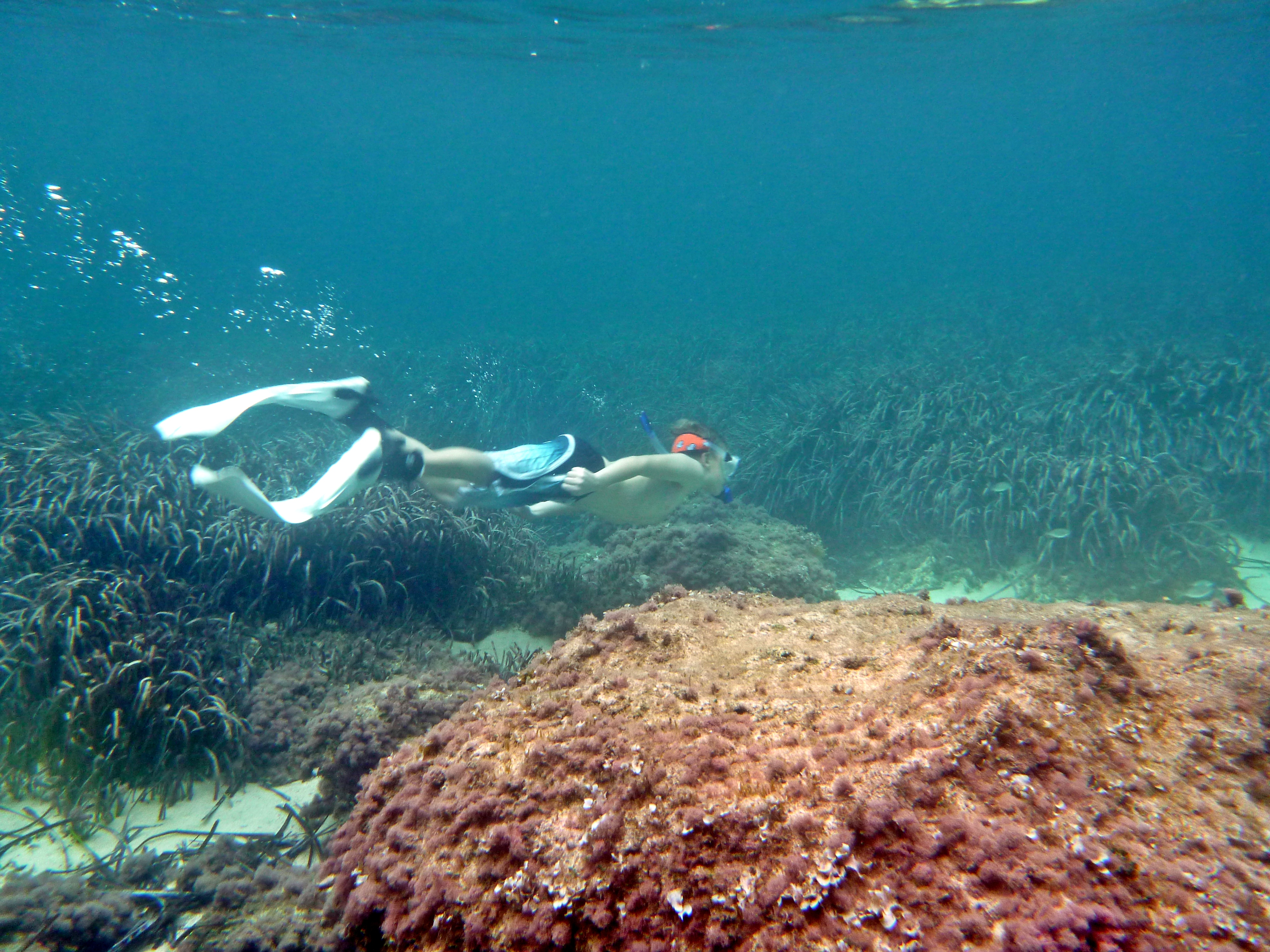 Snorkler over seagrass in the Mediterranean